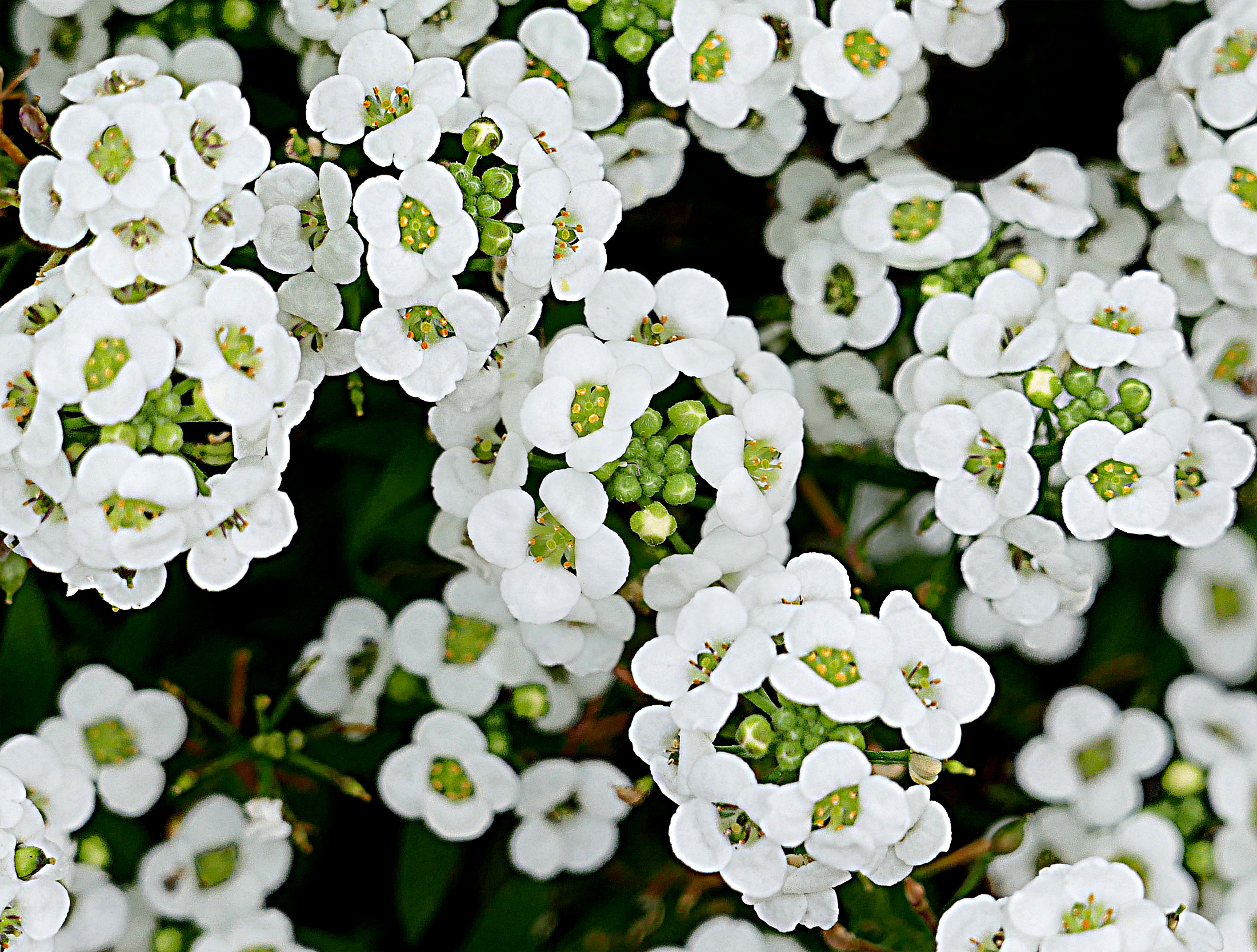 Sweet alison -- Lobularia maritima